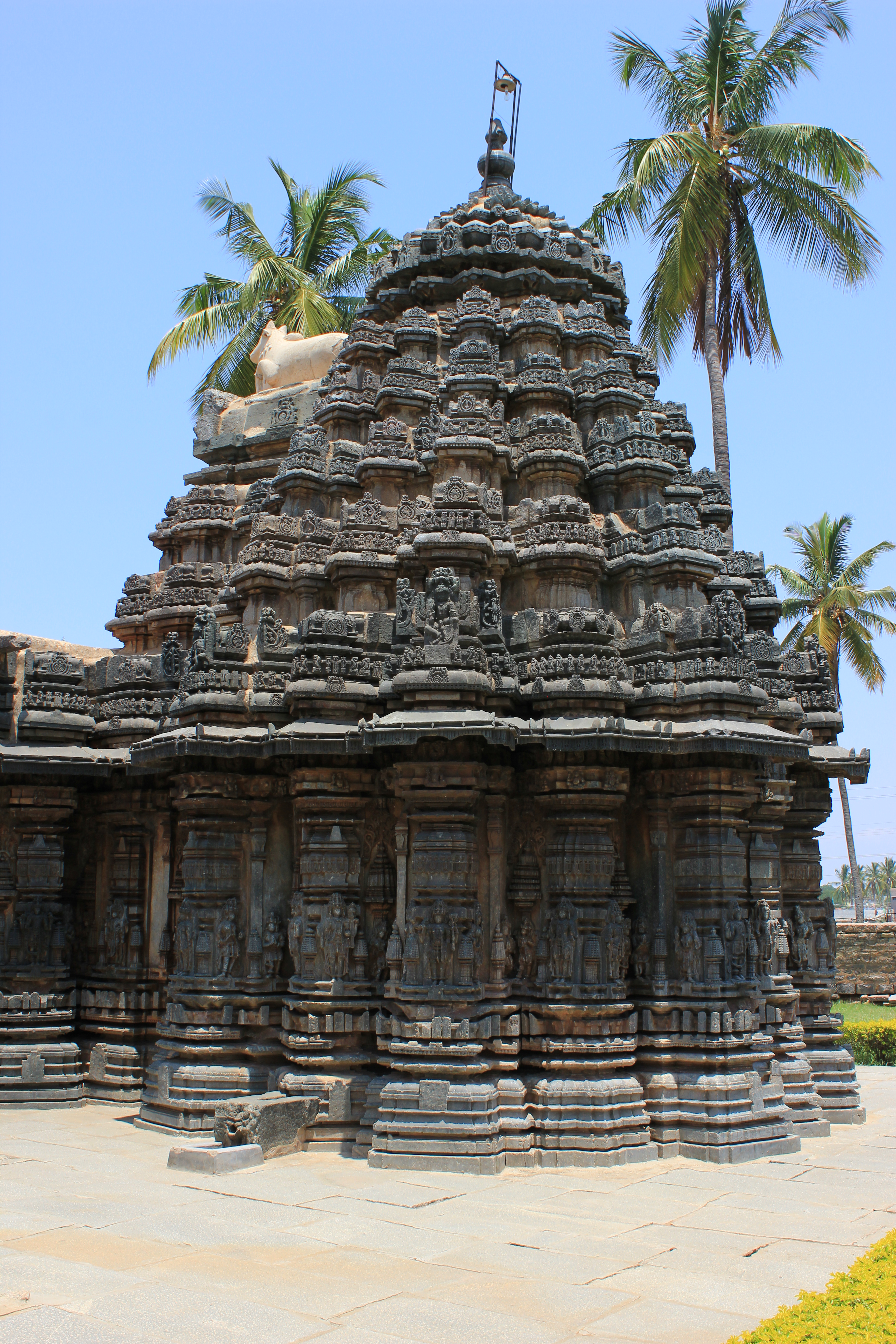 This photograph was taken by self (Dinesh Kannambadi) at the Ishvara temple (also spelt Isvara or Ishwara) in Arasikere, Hassan district, Karnataka state, India. The temple was built in 1220 AD during the rule of the Hoysala Empire King Veera Ballala II.